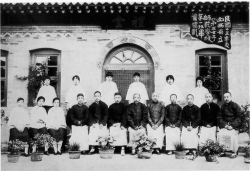 Graduation Photo, Class 1, 3rd Provisional Normal School of Shanxi